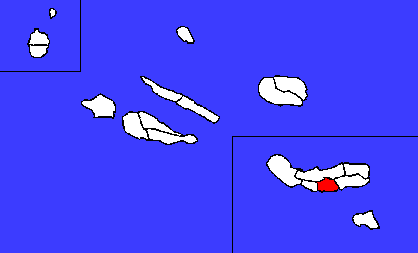 Location of the Portuguese municipality of Vila Franca do Campo within the Azores archipelago. Made by Afonso Silva.